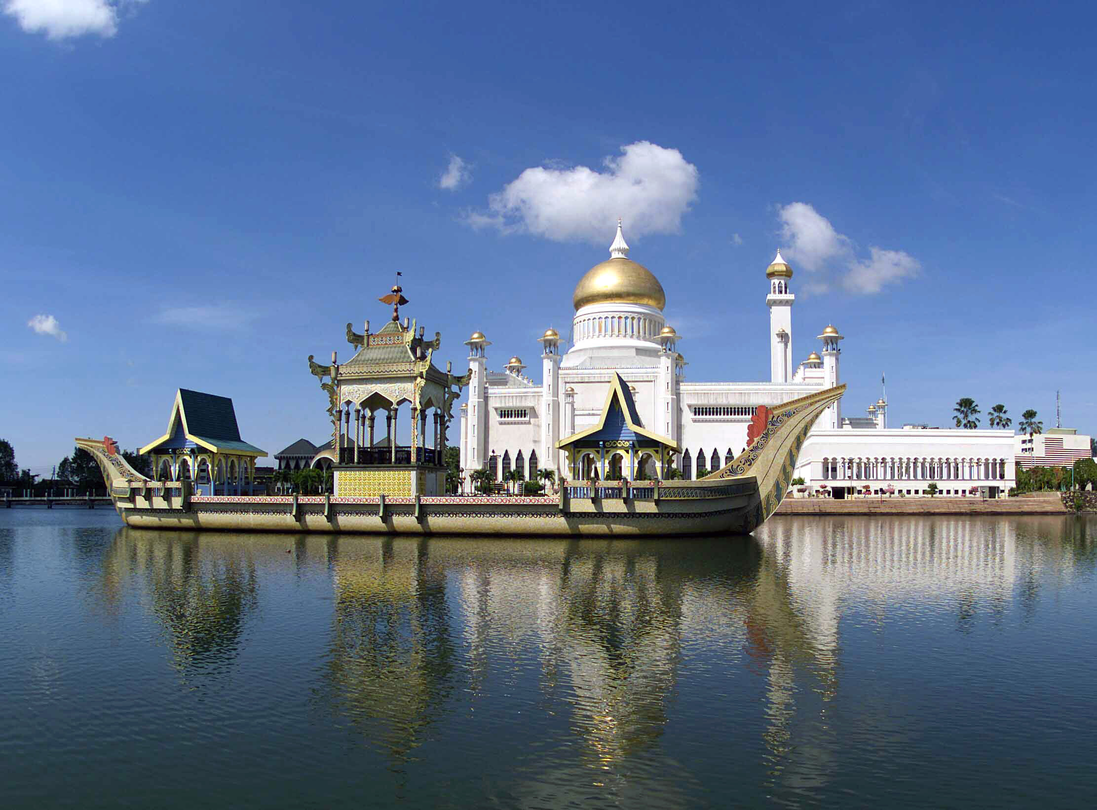 Mosque in the centre of Bandar Seri Begawan (BSB) capital of Negara Brunei Darussalam